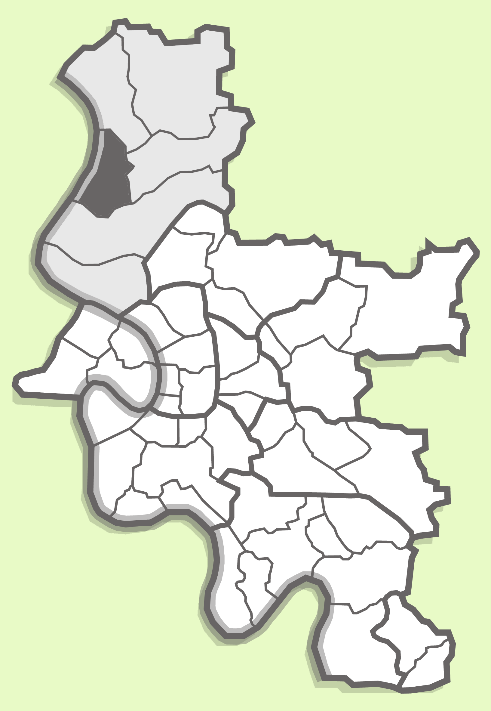 parts of the city of duesseldorf (kaiserswerth) / Karte mit den Düsseldorfer Stadtteilen (Kaiserswerth)